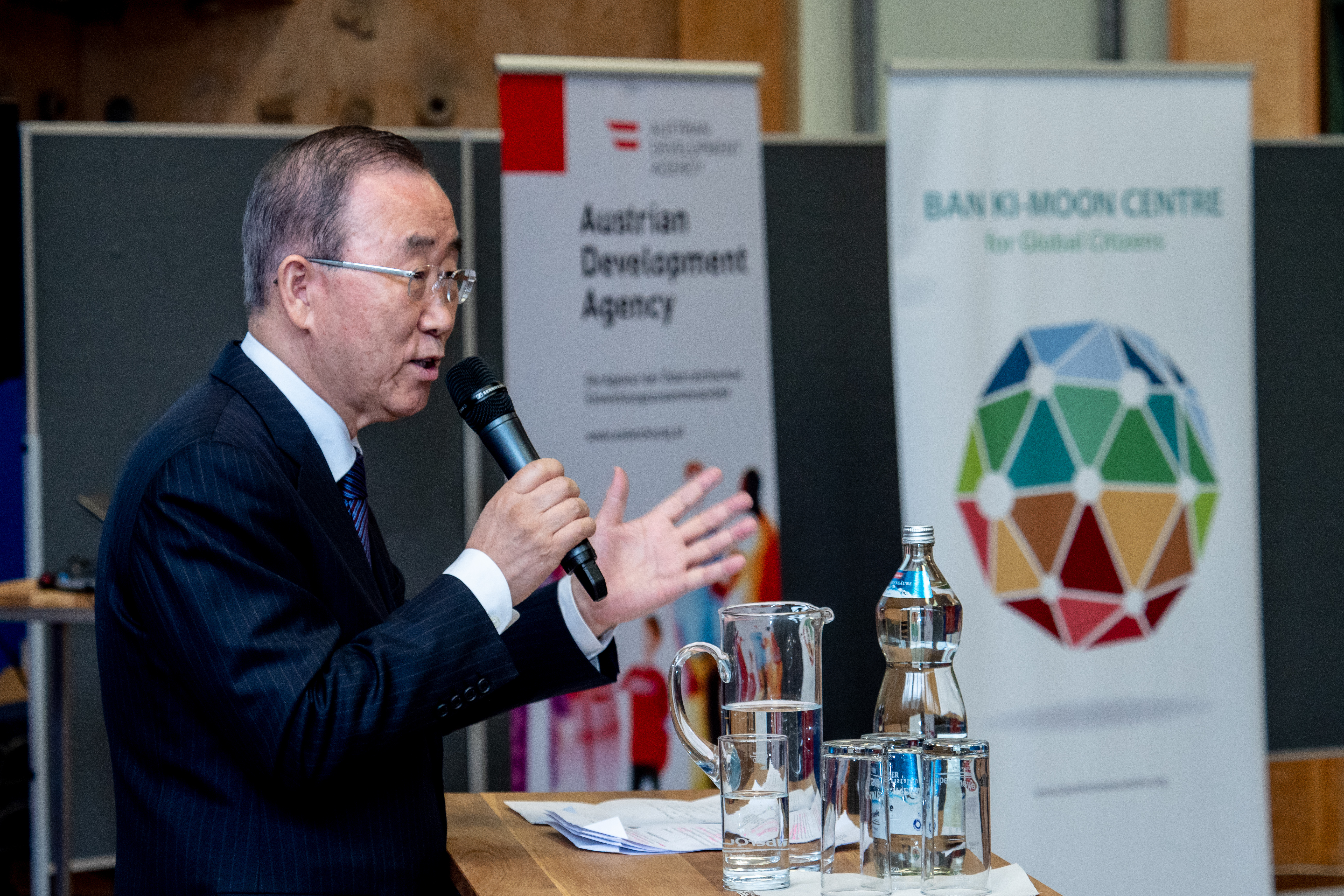 Former United Nations Secretary-General Ban Ki-Moon holds a keynote speech at the Breakout Session of the Austrian Development Agency & 'The Empowerment of Women and Youth: The United Nations Sustainable Development Goals in Practice'